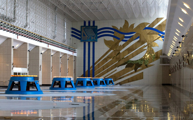 Bureya HPP